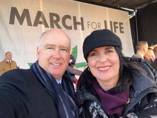 Caroline and I were very proud to participate in this year's March for Life in Washington. #MarchForLife2018